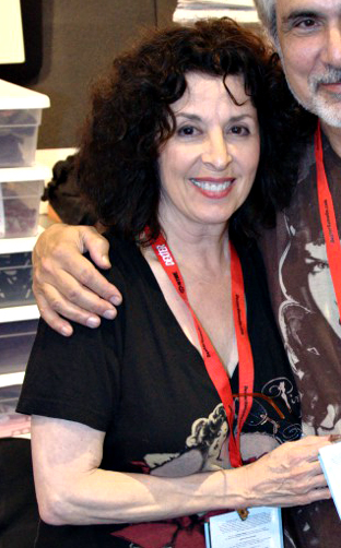 Olivia De Berardinis at the 2010 San Diego Comic Con